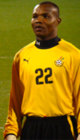 Ghanaian footballer Richard Kingston.